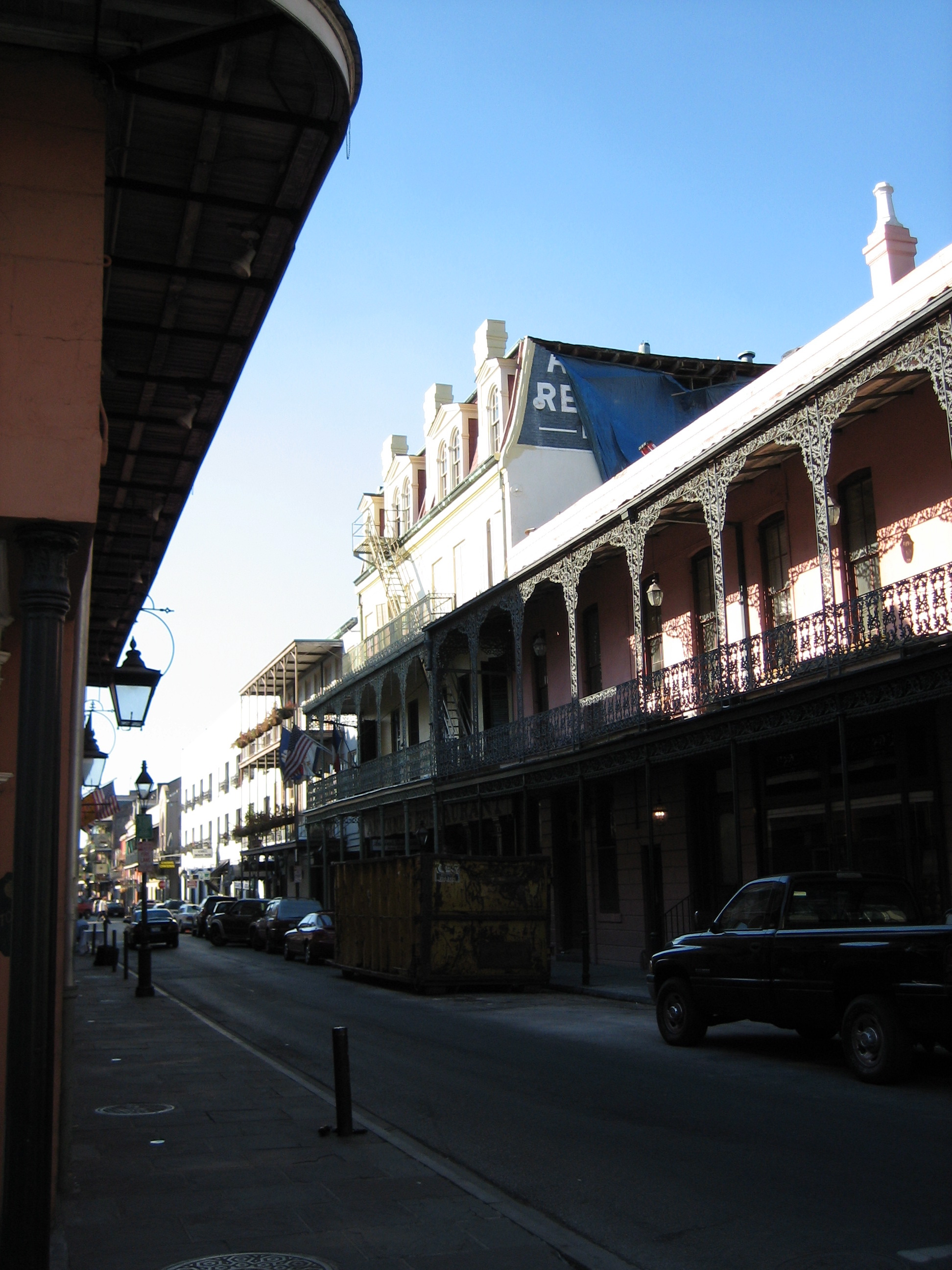 New Orleans after Hurricane Katrina: French Quarter restaurant Antoine's shows wind damage partly tarped over. Photo by Infrogmation, October 2005